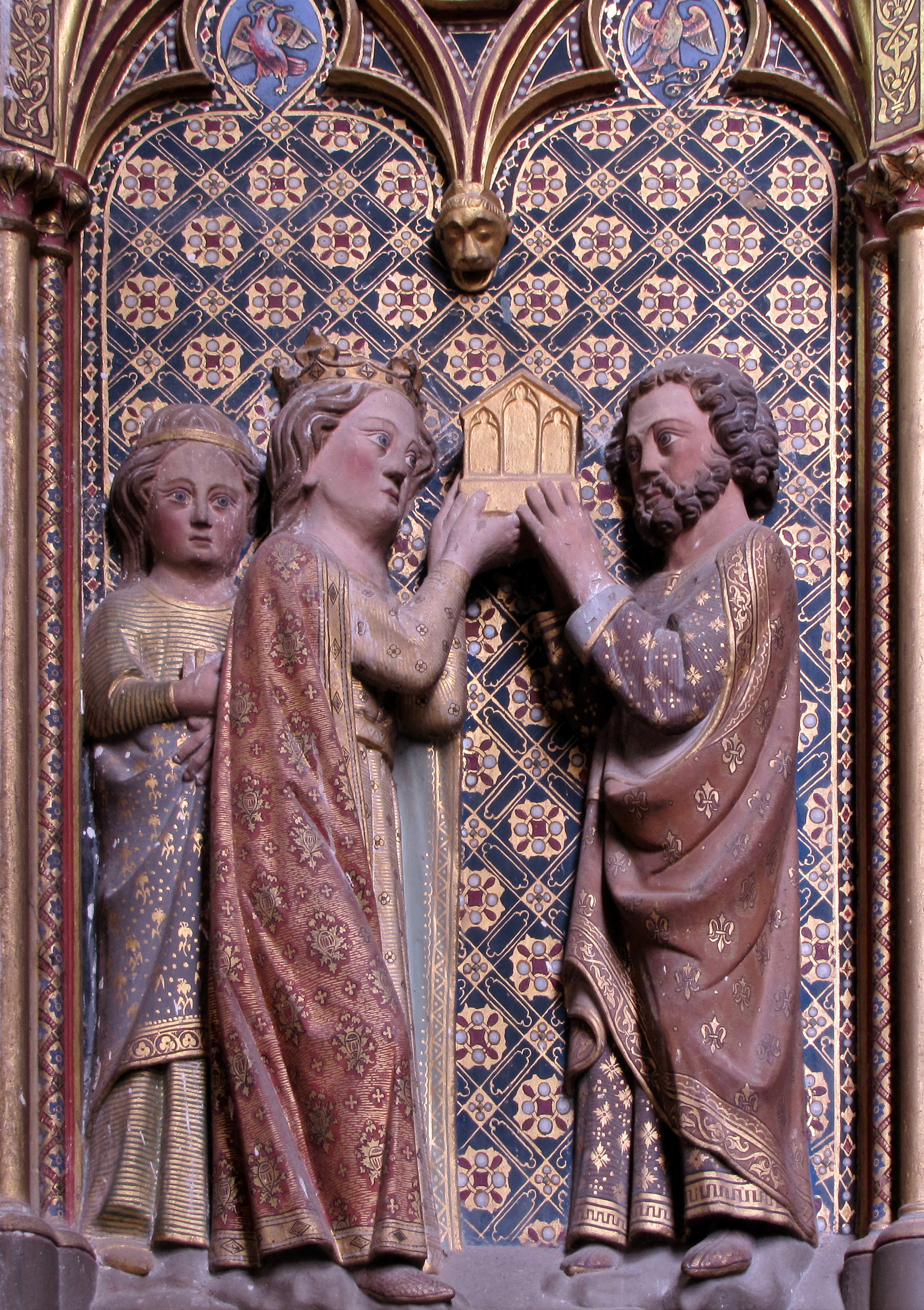 Alsace, Bas-Rhin, Église Saints-Pierre-et-Paul dite Sainte-Richarde (PA00084587, IA00115010). Châsse de Sainte-Richarde: Ste-Richarde remettant la maquette de l'abbaye à Saint-Pierre ce qui symbolise sa donation au Saint-Siège. This object is classé Monument Historique in the base Palissy, database of the French furniture patrimony of the French ministry of culture, under the references PM67000872 and IM67005789.